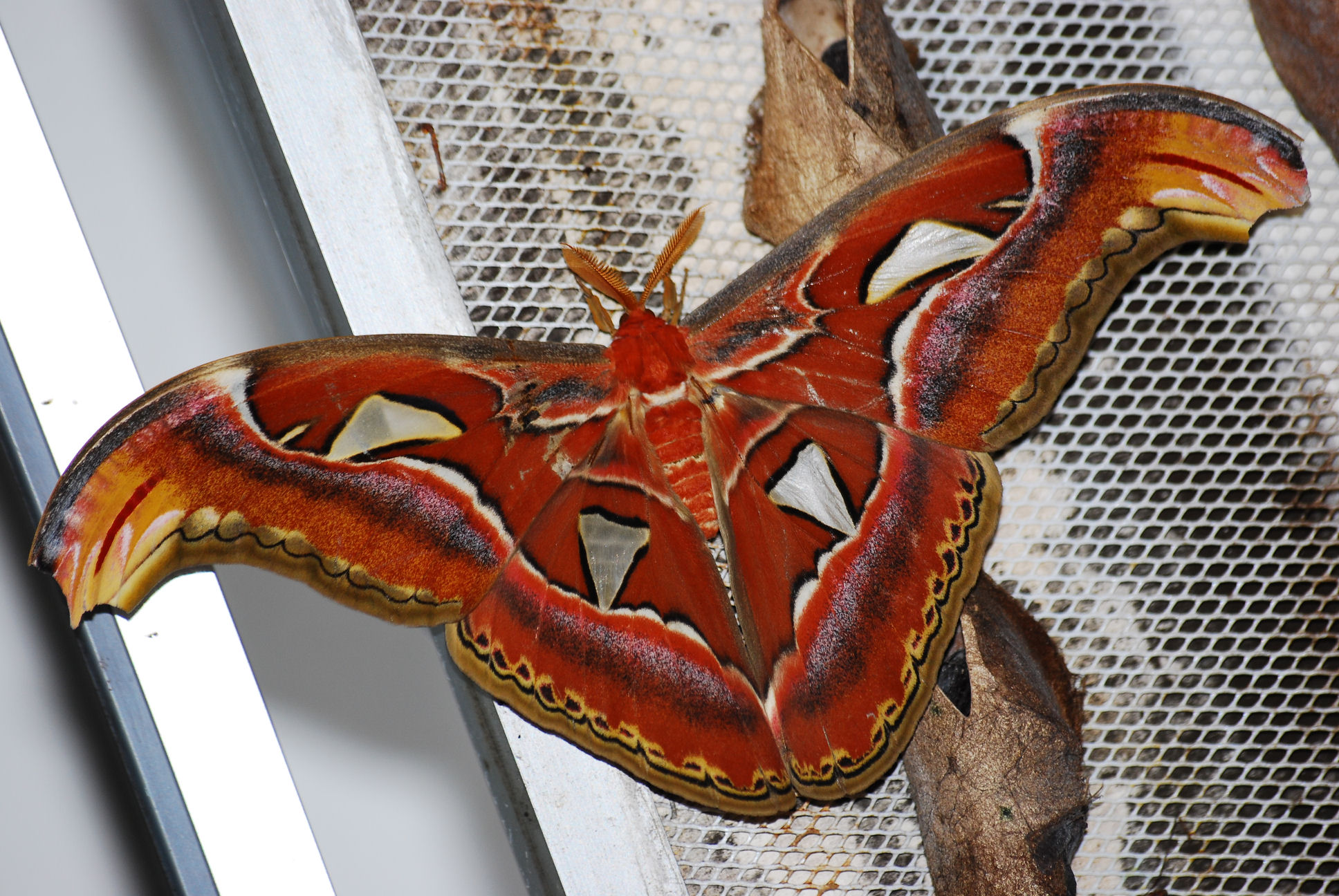 Attacus atlas from Indonesia in Bornholms Sommerfugelpark & Tropeland